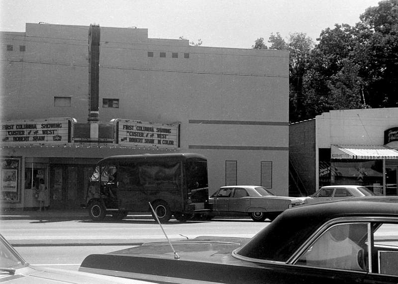 The old Five Points movie theater on Harden Street showing the American western film Custer of the West (1967).